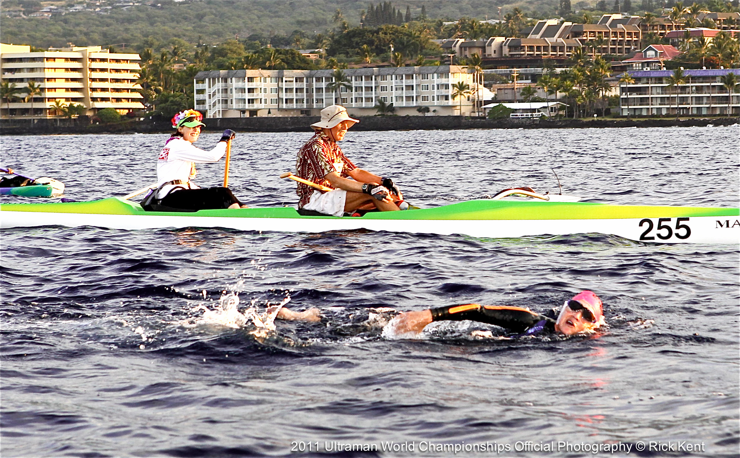 2011 Ultraman World Championships Stage One 6.2 mile swimmer. Photo by official event photographer Rick Kent